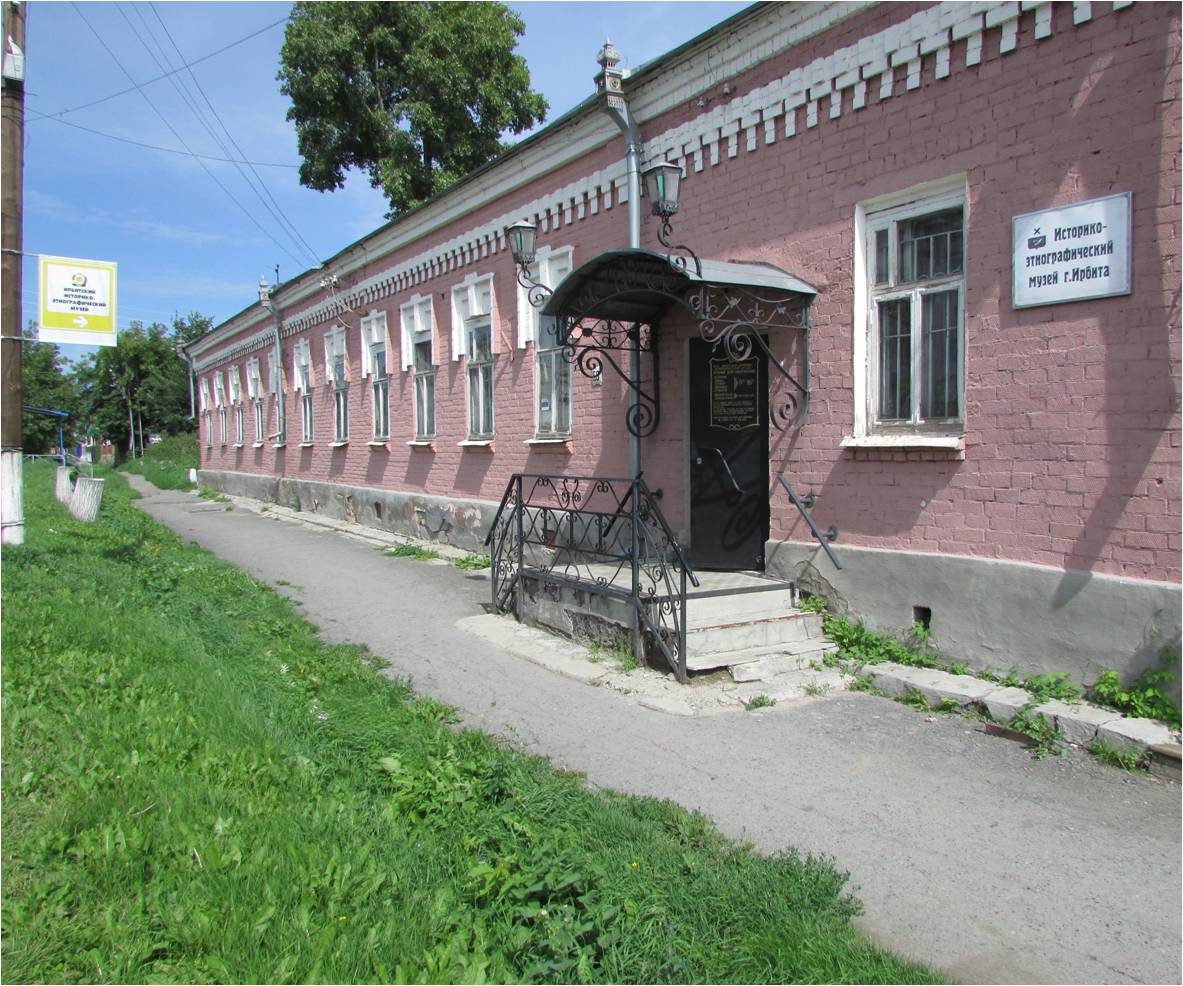 Здание музея на улице Кирова, 50